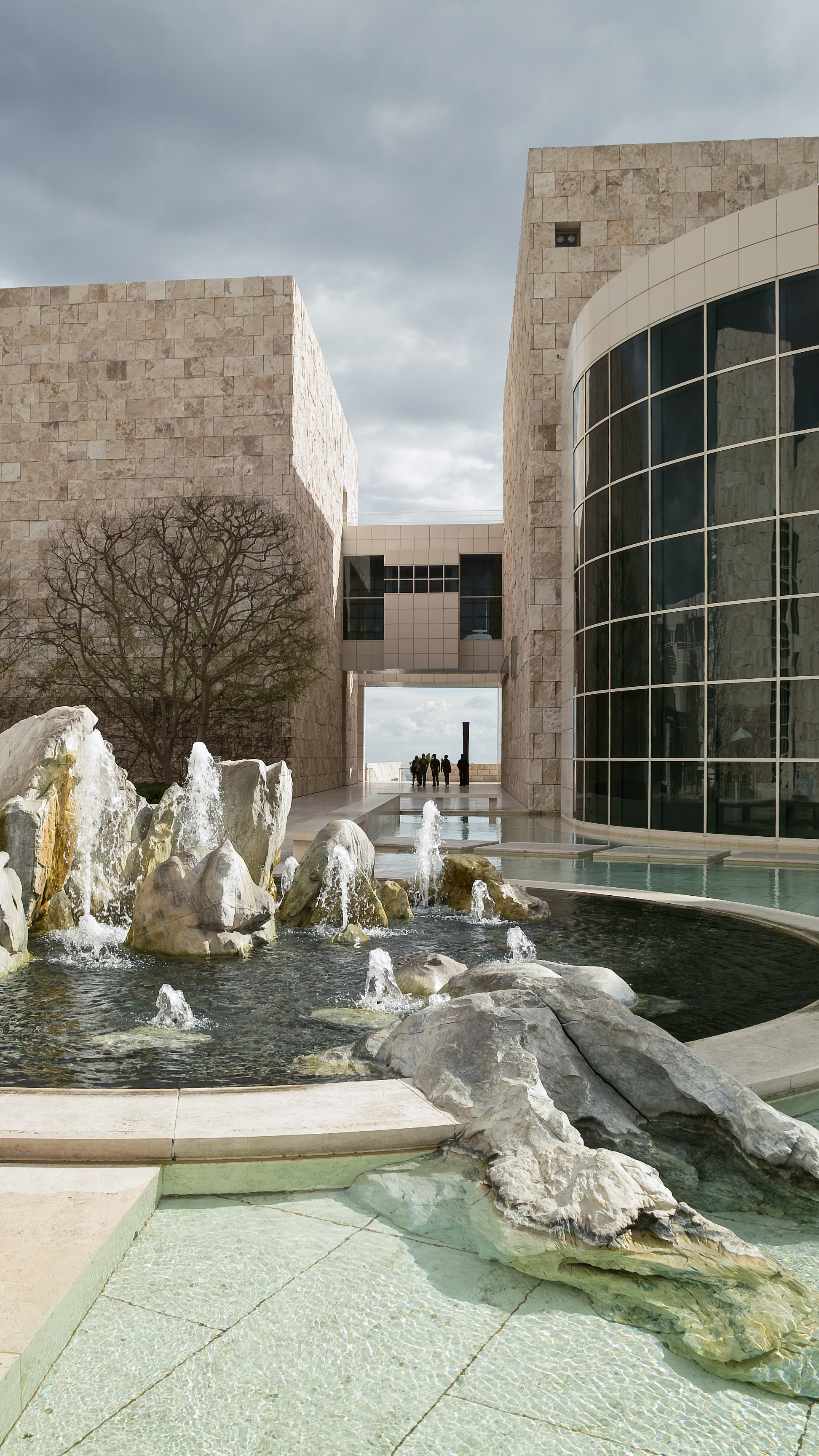 The fountain in the court of the Getty Center in California from north-west on February 8, 2009.